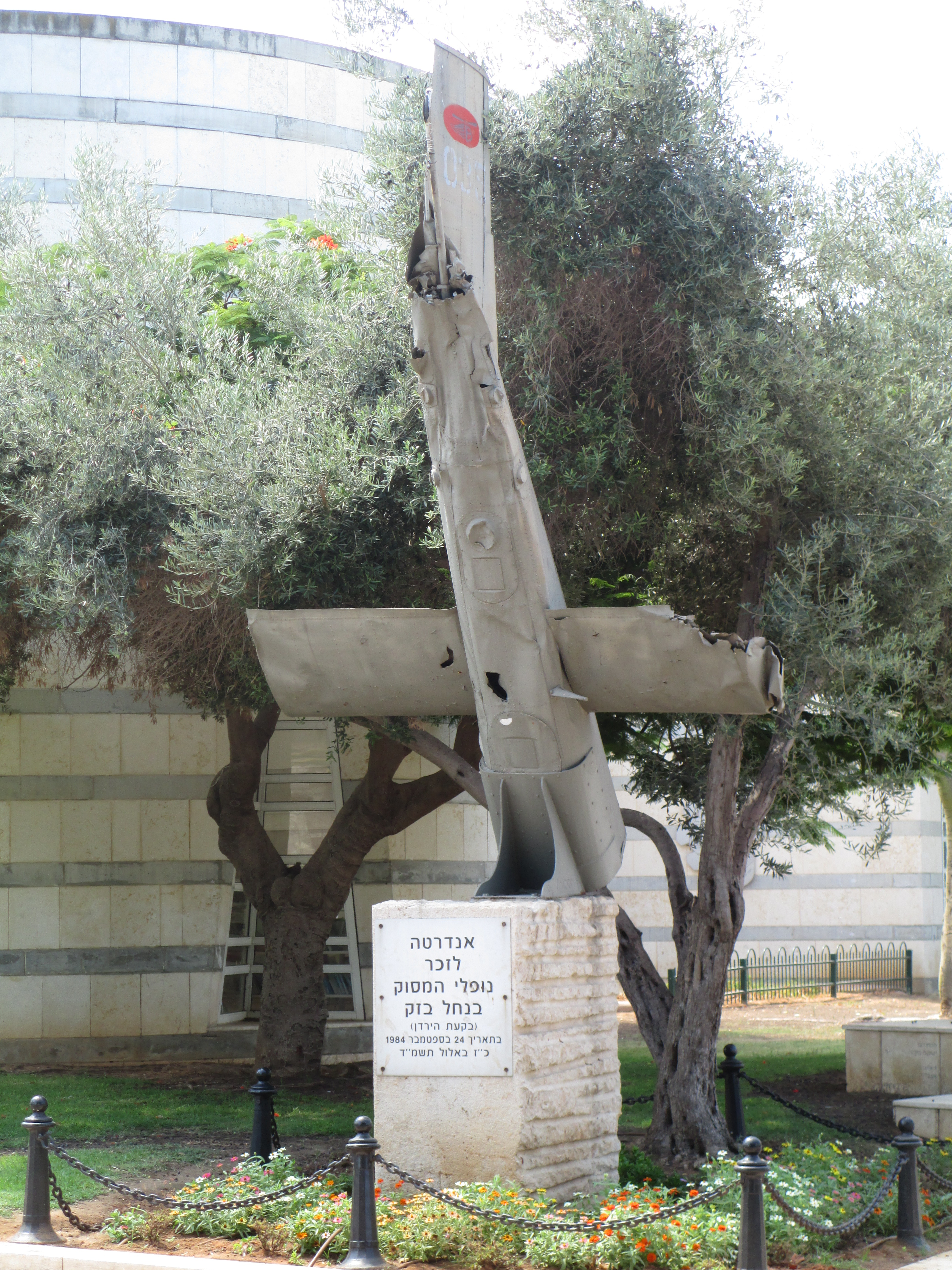 Bell 212 crash (1984) memorial in Tel Aviv